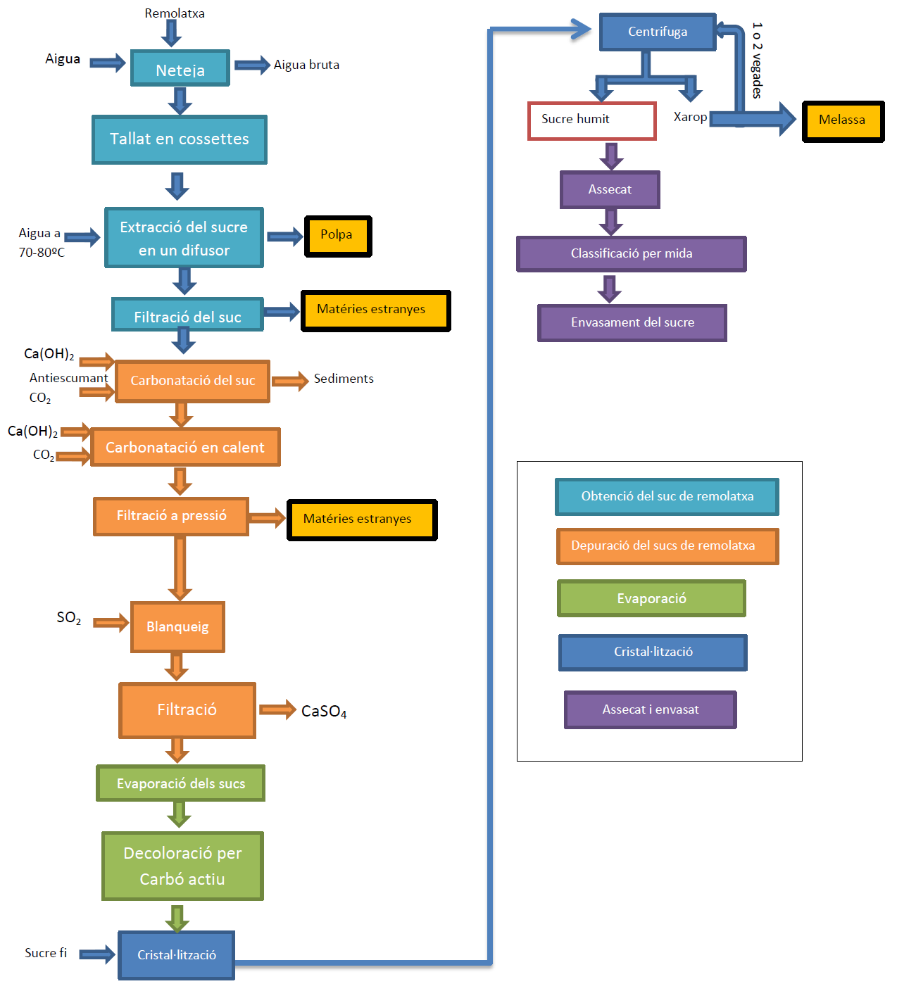 sugar beet diagram